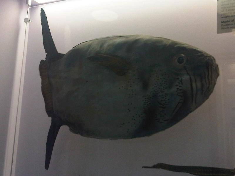 Slender sunfish (Ranzania laevis) model at the Natural History Museum in London, England.